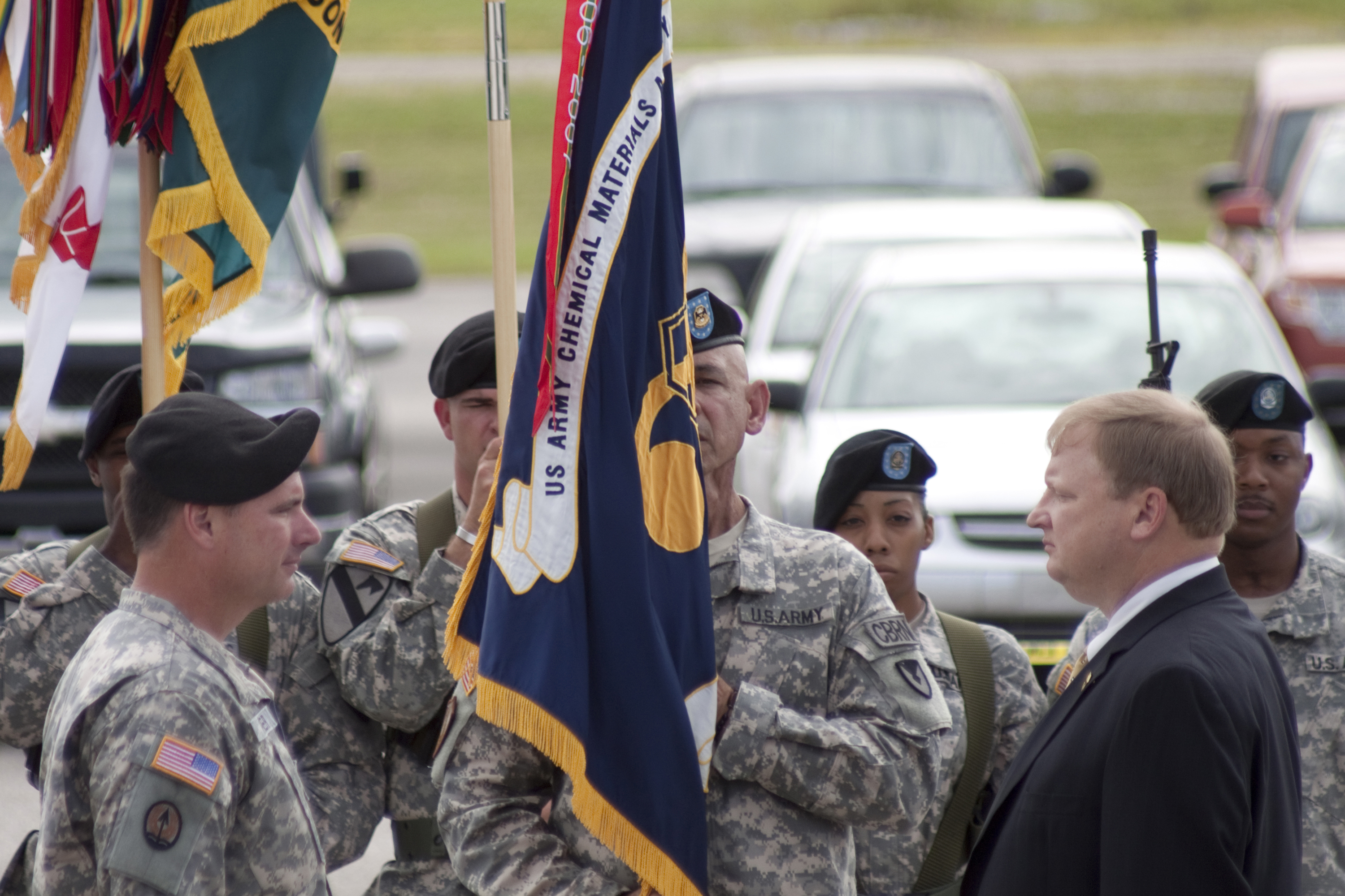 The Newport Chemical Depot flag at the NECD deactivation ceremony, held June 17, 2010.